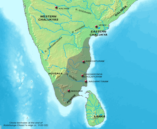 Summary Map showing the extent of the Chola empire during Kulothunga Chola I. Modified by myself using Adobe Photoshop